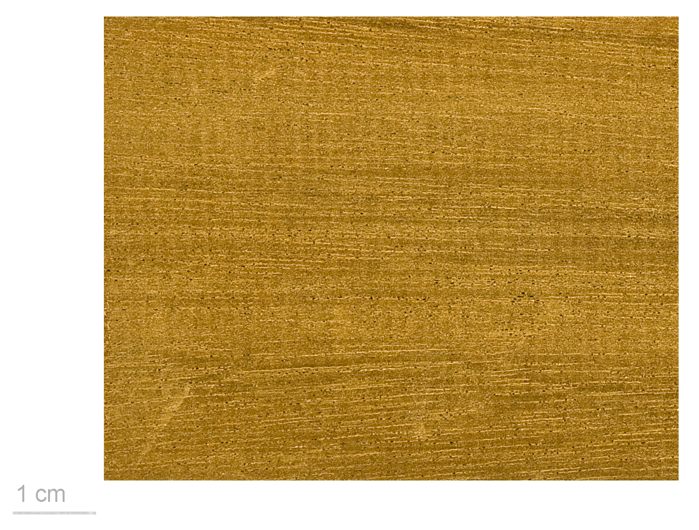 African Walnut , wood